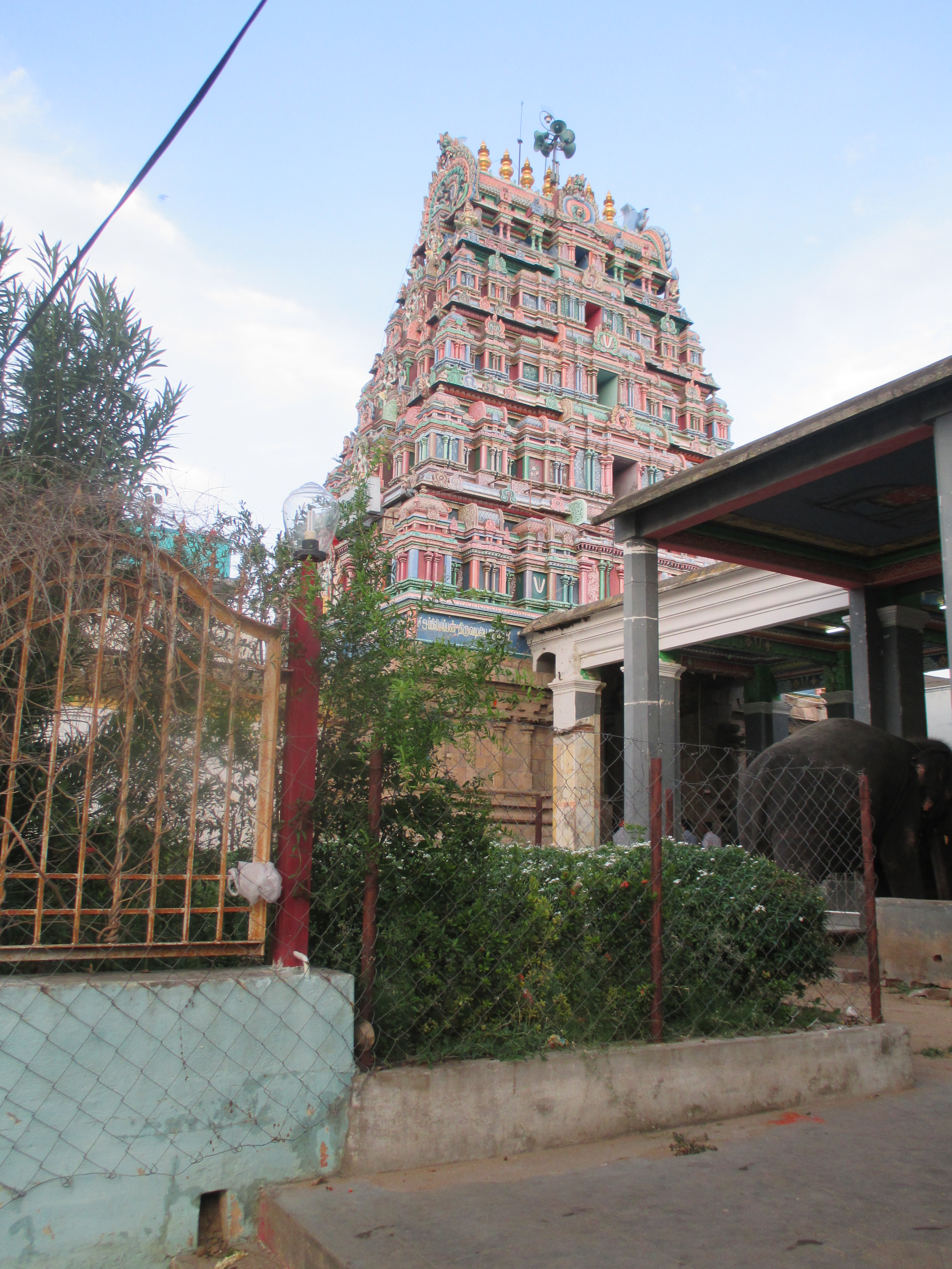 uppiliappan koil1